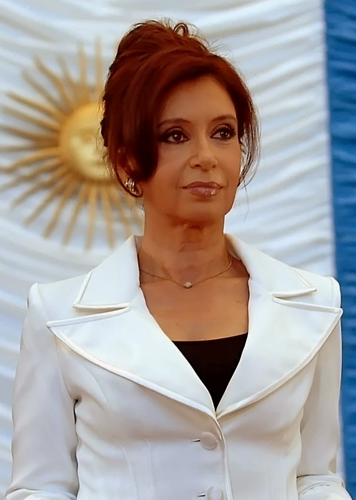 Cristina Fernández de Kirchner, President of Argentina in her role as Commander in Chief of the Armed Forces